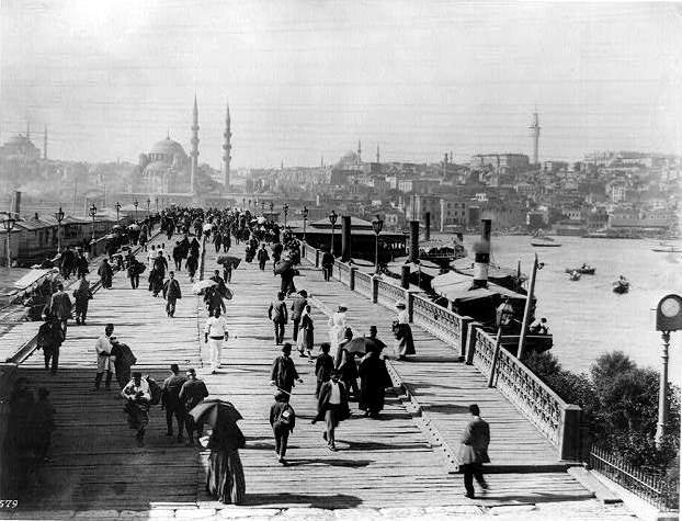 View of the "Third Galata Bridge" (completed in 1875) and background Eminönü with New Mosque from Karaköy,Istanbul.